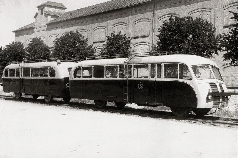 SNCF X 5700 Floirat railcar.